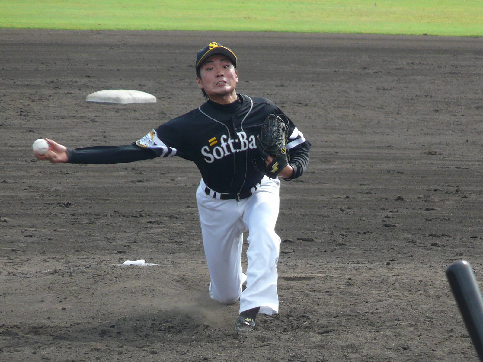 Hideaki Takahashi